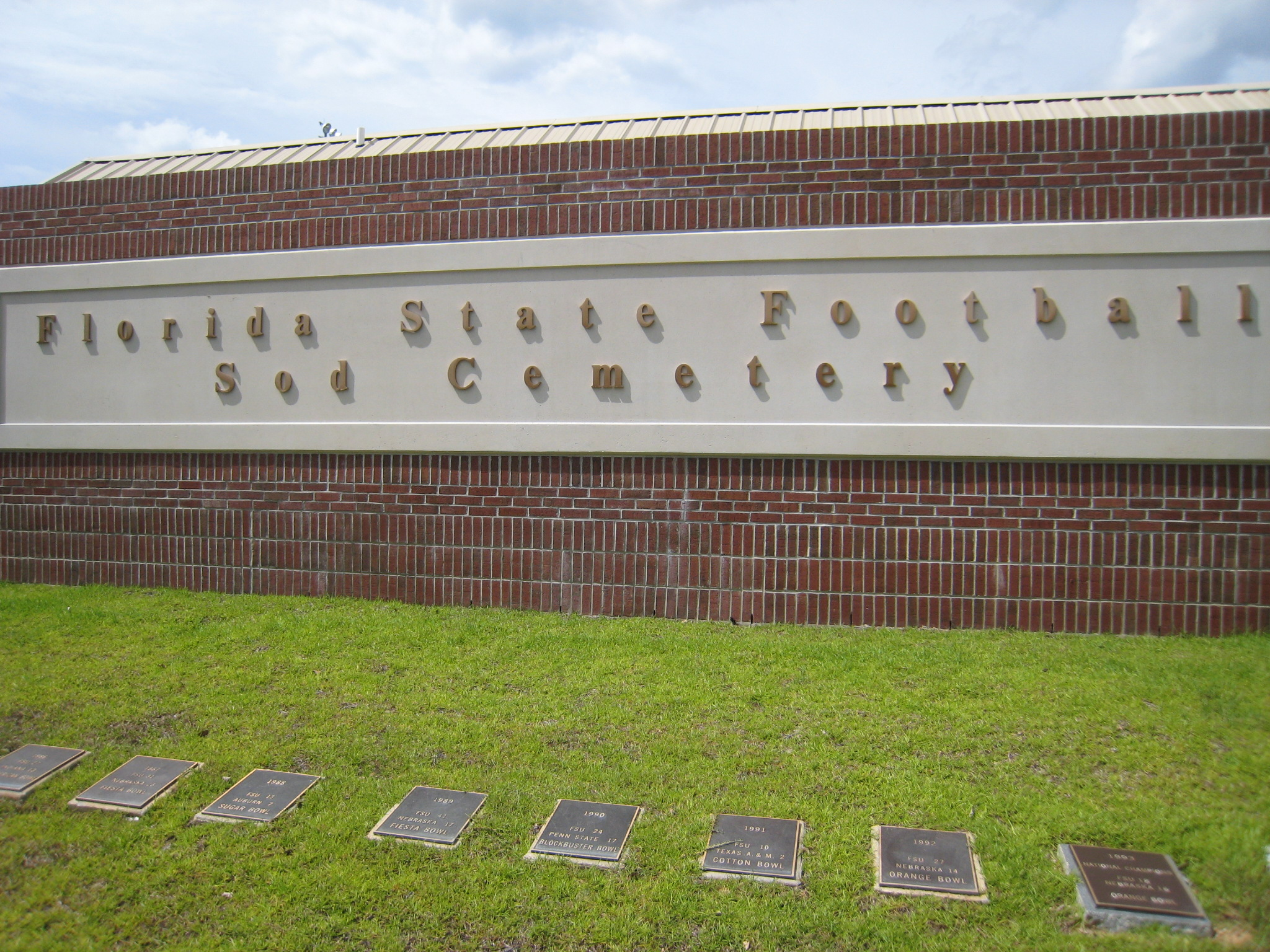 The Sod Cemetery ,Florida State University